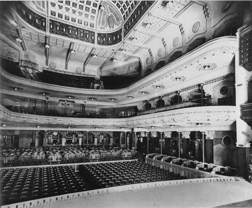 The big room of cinema Pathé Palace (Brussels) in 1920.